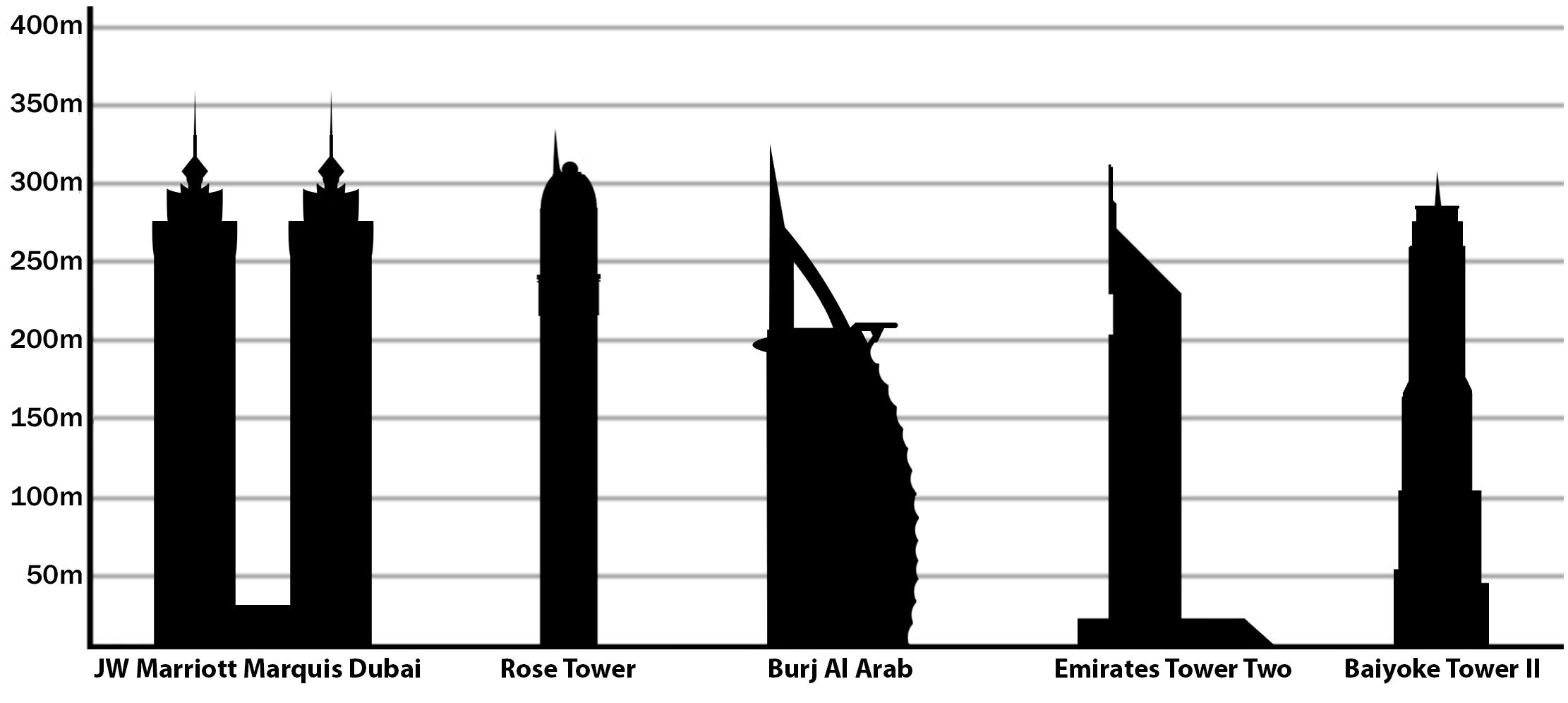 Tallest hotels in the world; Used data from . Ryugyong Hotel doesn't count because it topped out.[1]